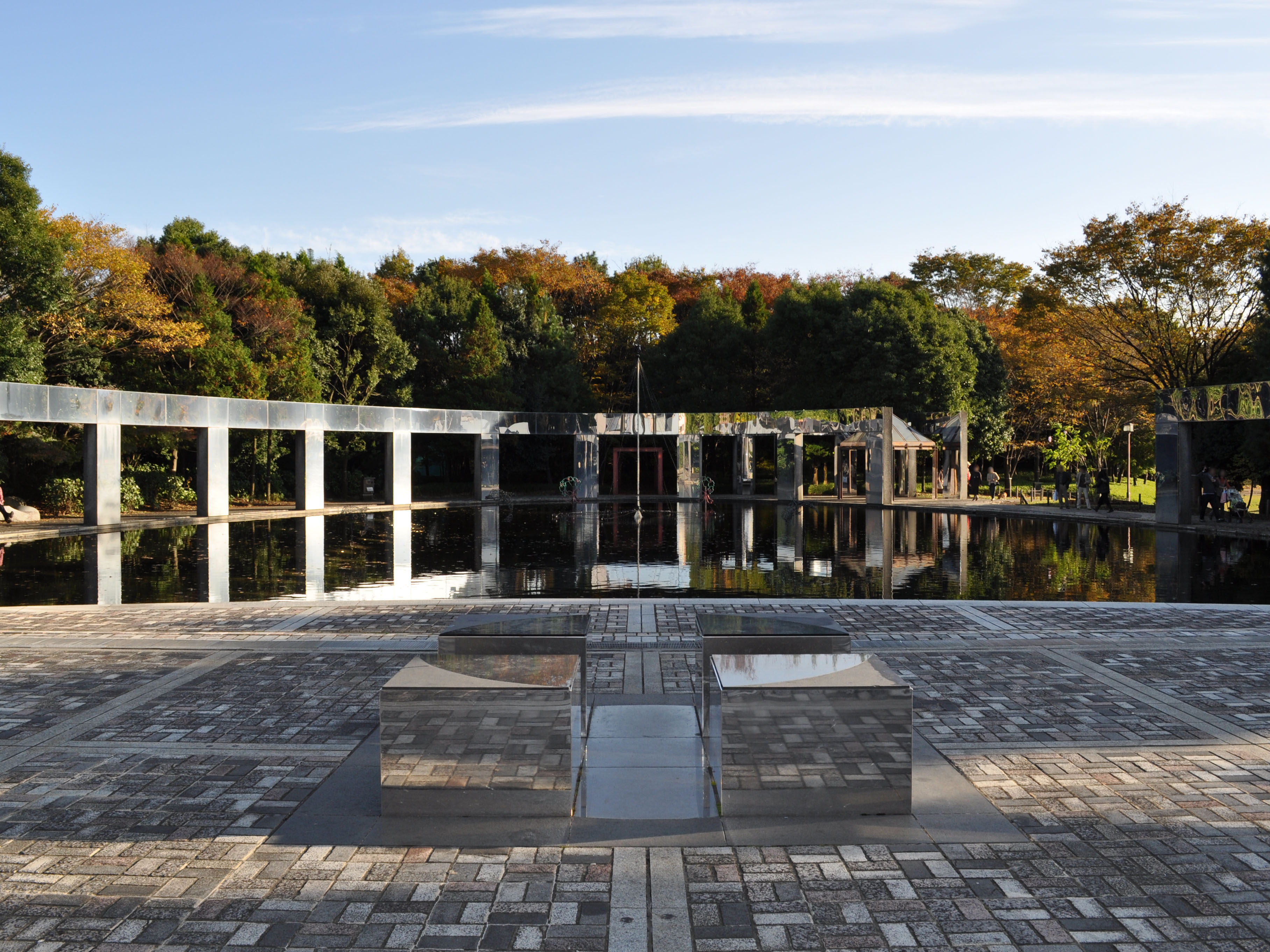 Tama Central Park in Tama, Tokyo, Japan.